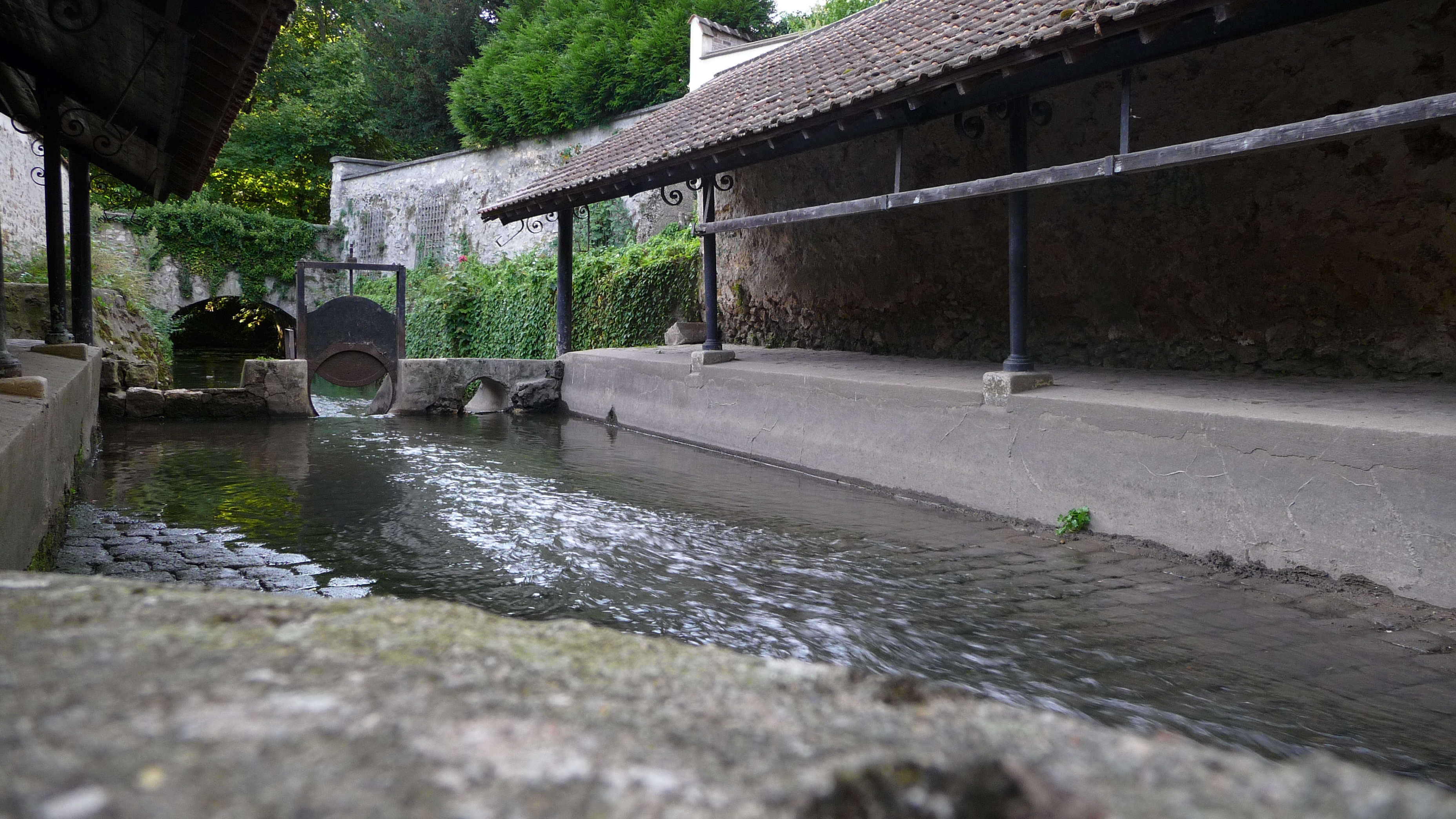 The old laundry (19th century) of la Queue-en-Brie, France.